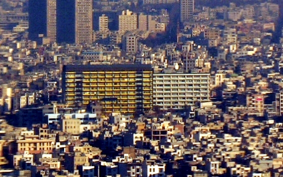 The main building of Social Security Organization of Iran in Tehran, Azadi St.